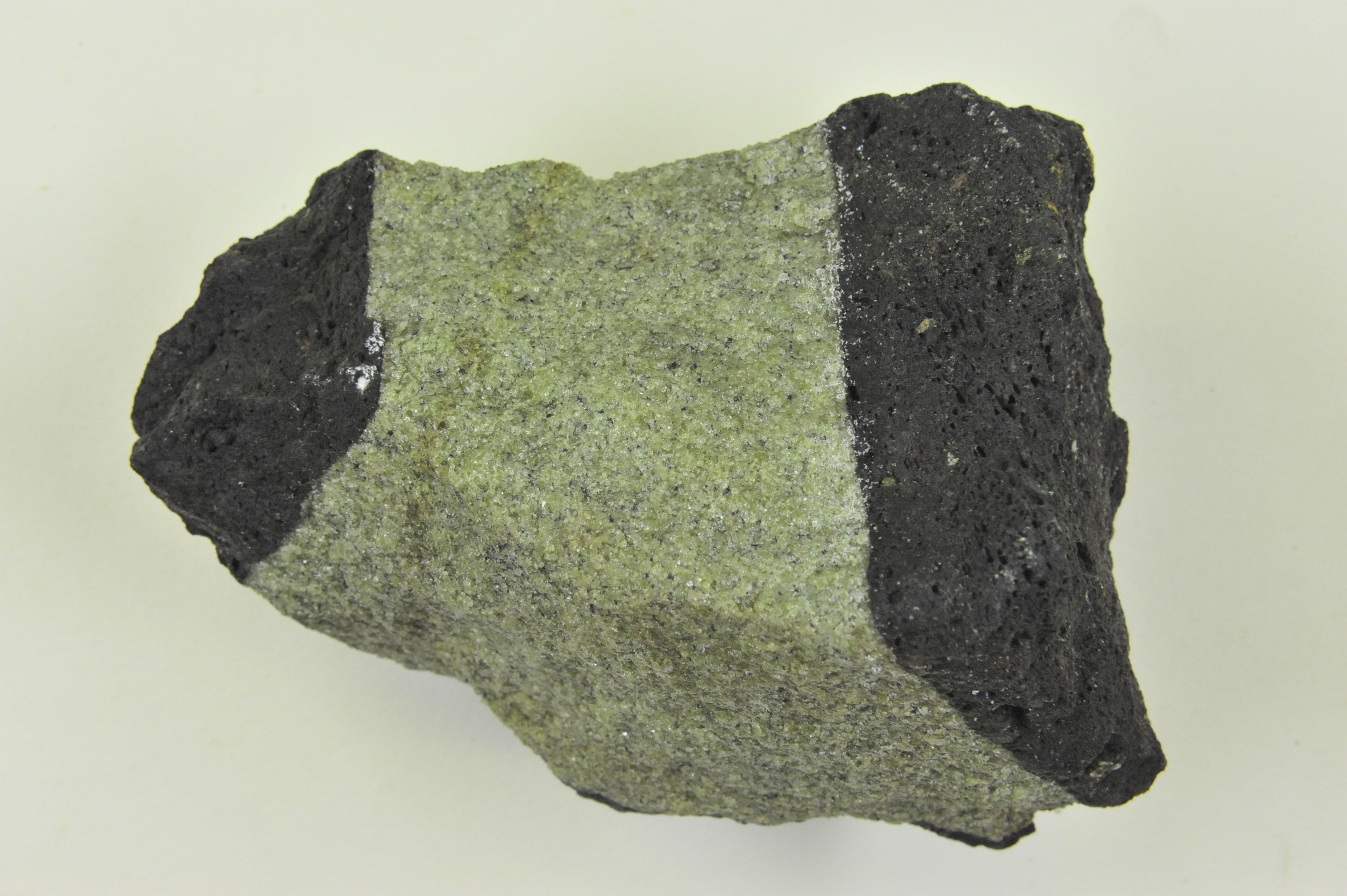 Olivin (as Xenolit) in Lava